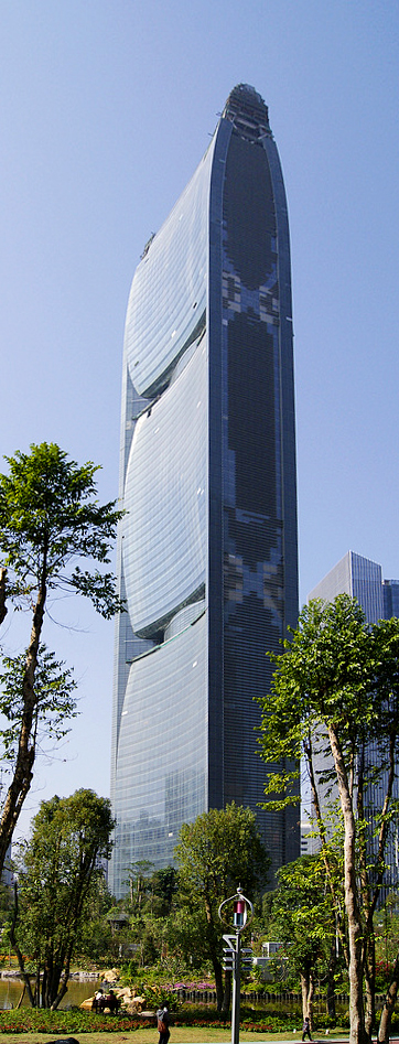 The Pearl River Tower in Guangzhou, China, made by SOM architects